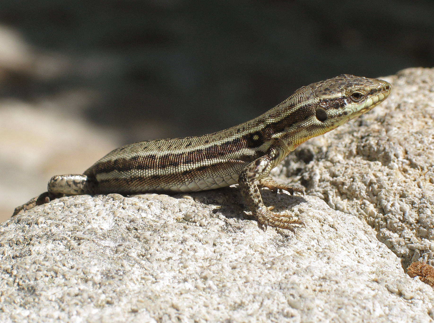 Common wall lizard (Podarcis muralis), seen in the south of France